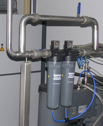 Compressed air filters